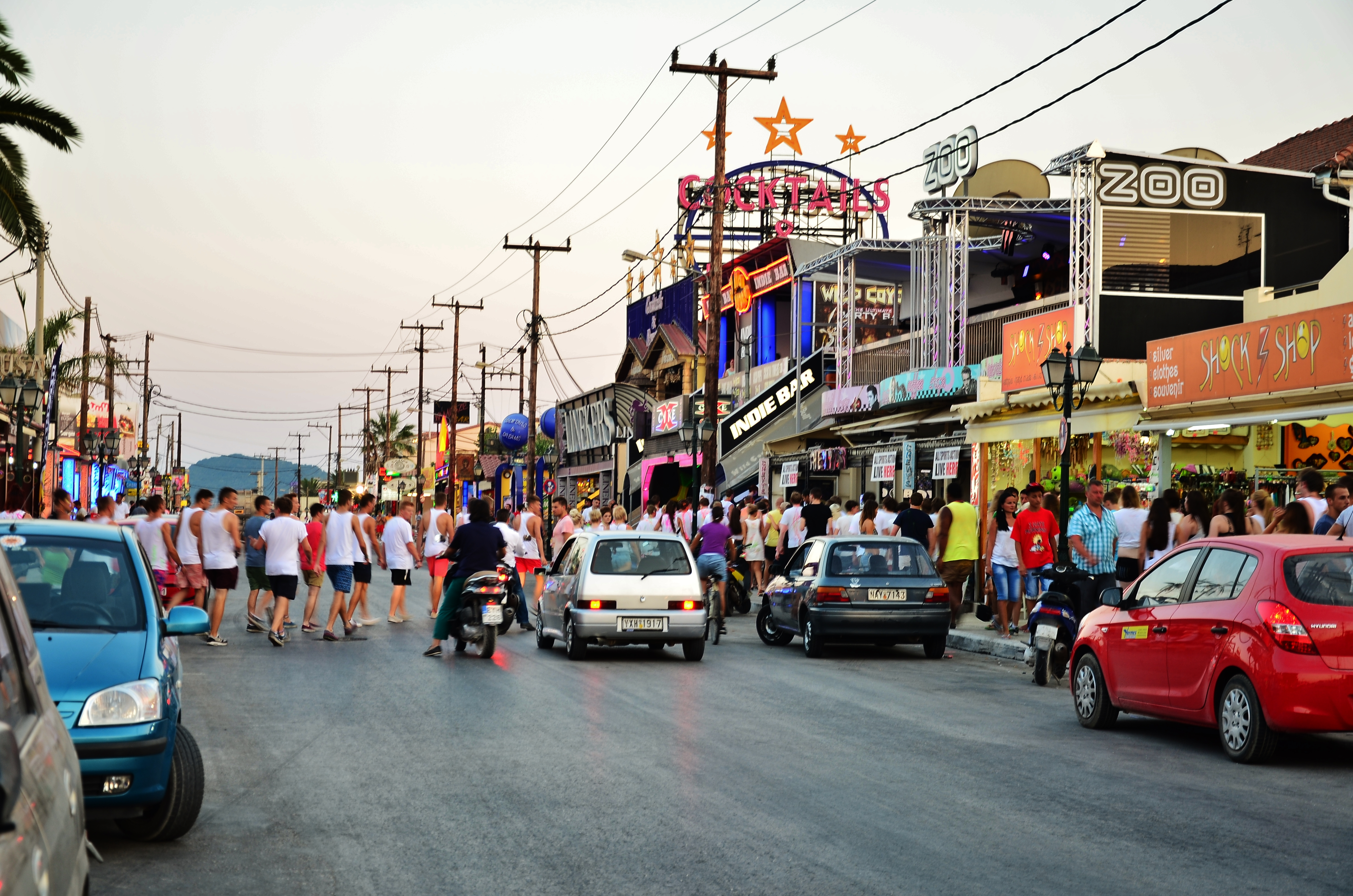 Laganas, Zakynthos, Greece